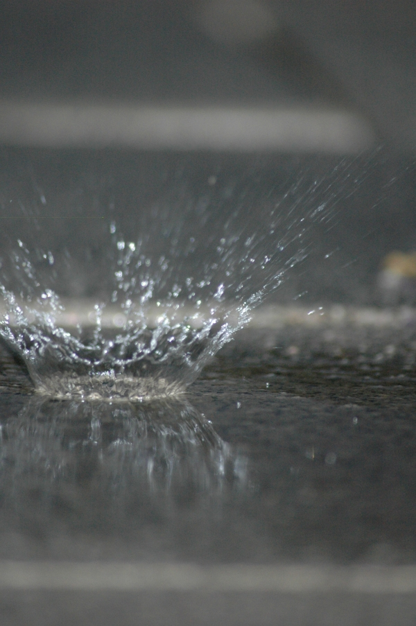 Raindrop falling on the bottom